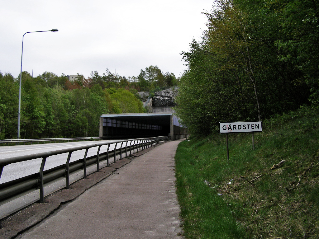 Western entrance of the vehicular tunnel Gårdstenstunneln, Gothenburg, Sweden.